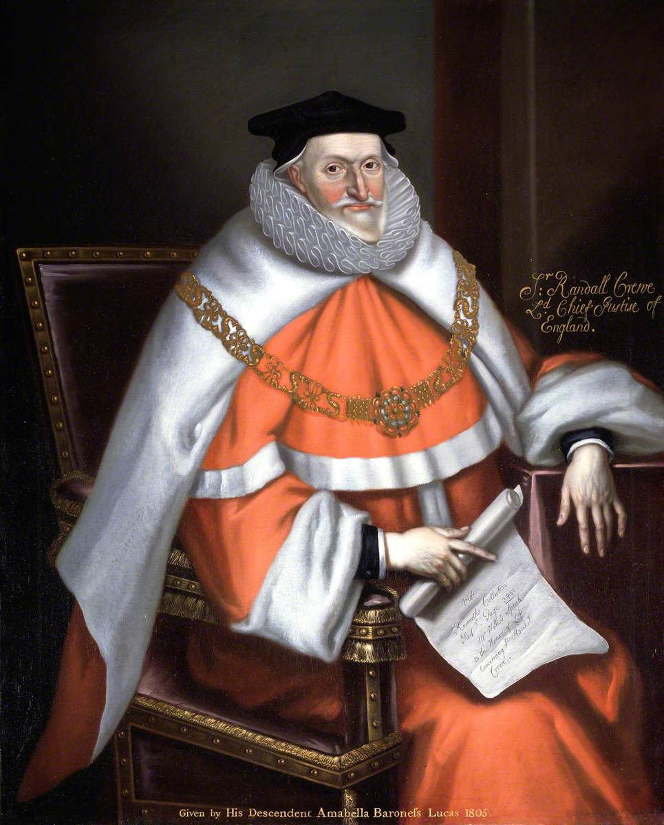 Portrait of Sir Randall Crewe (1558-1646), Lord Chief Justice